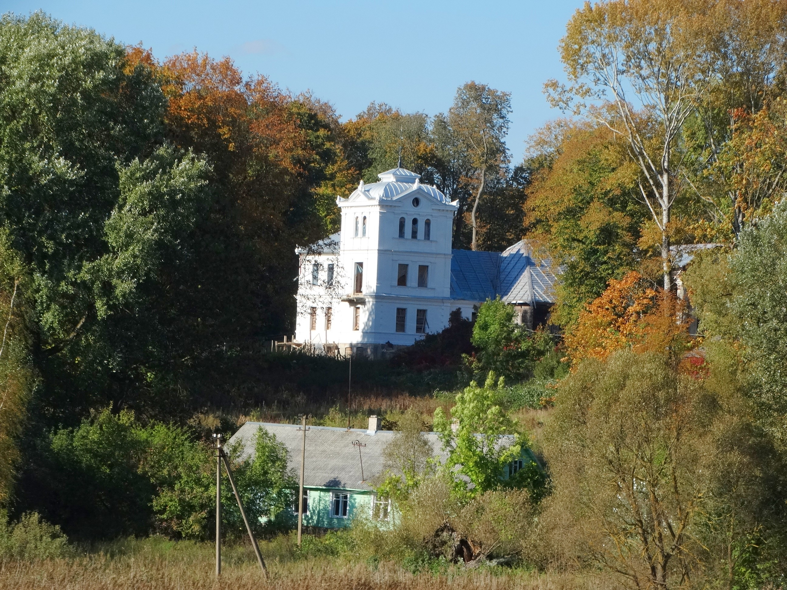 Manor in Abromiškės, Elektrėnai Municipality, Lithuania